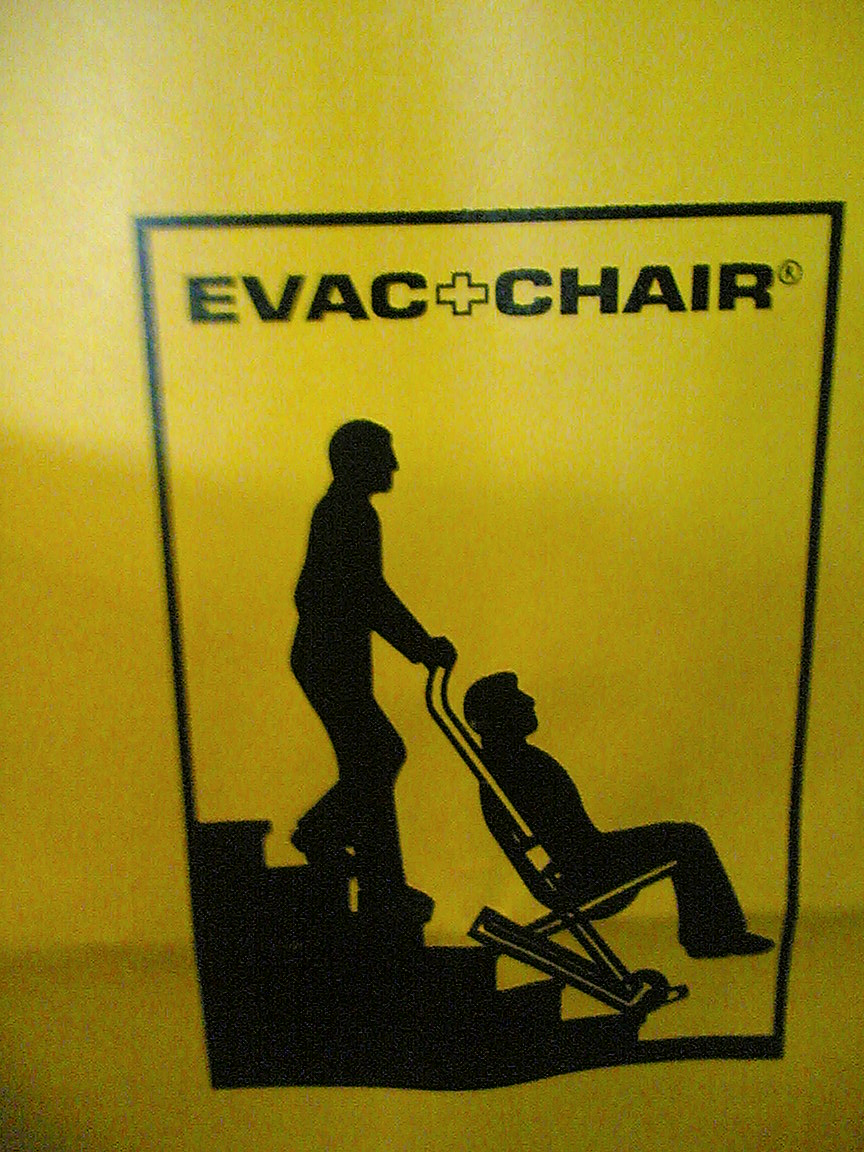 Poster for an Evac+Chair, used to carry someone with a mobility disability down stairs during a building evacuation